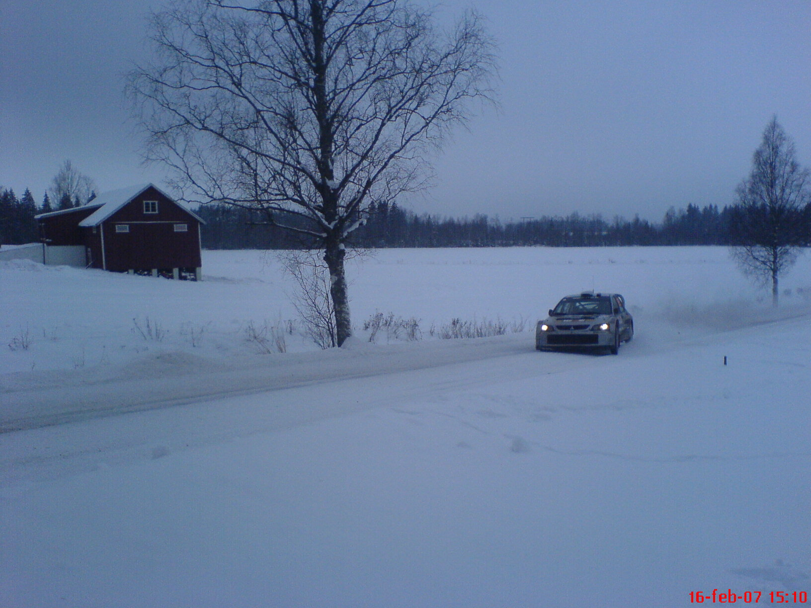 Juho Hanninen, SS6, Kongsvinger, 2007 Rally Norway.